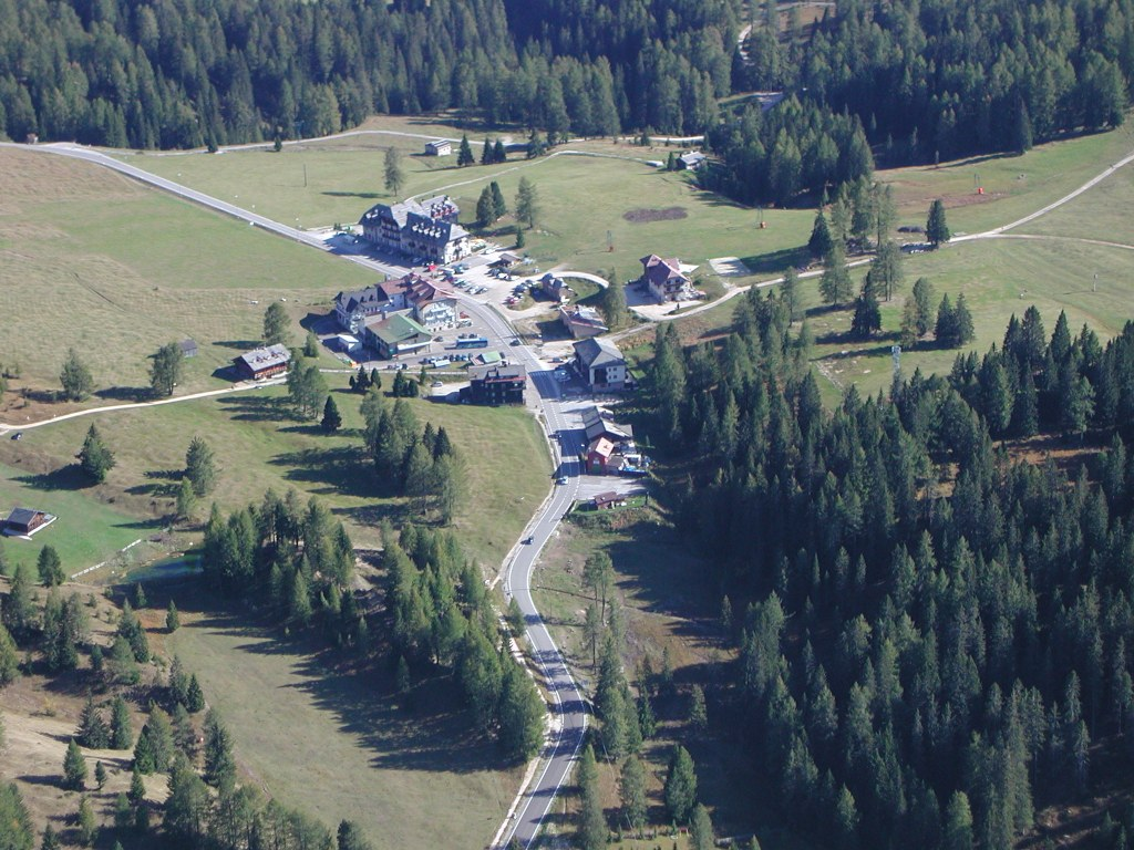 The Karerpass, South Tyrol, seen from a glider